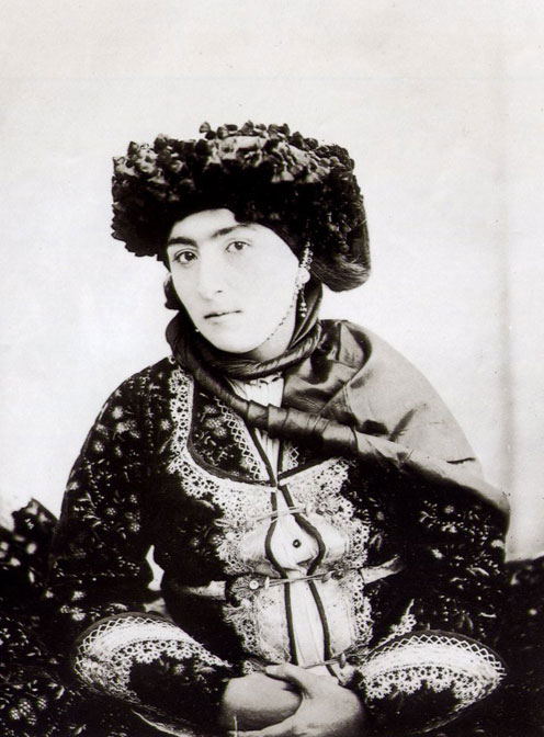 Kurdish woman. One of Antoin Sevruguin's historical Iran photographs.